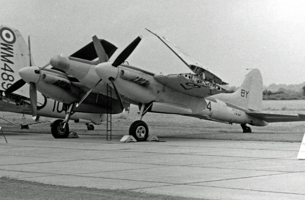 DH.103 Sea Hornet NF.21 displayed with wings folded at RNAS Stretton, Cheshire, in 1955. Operated by the Airwork FRU at St Davids, West Wales.